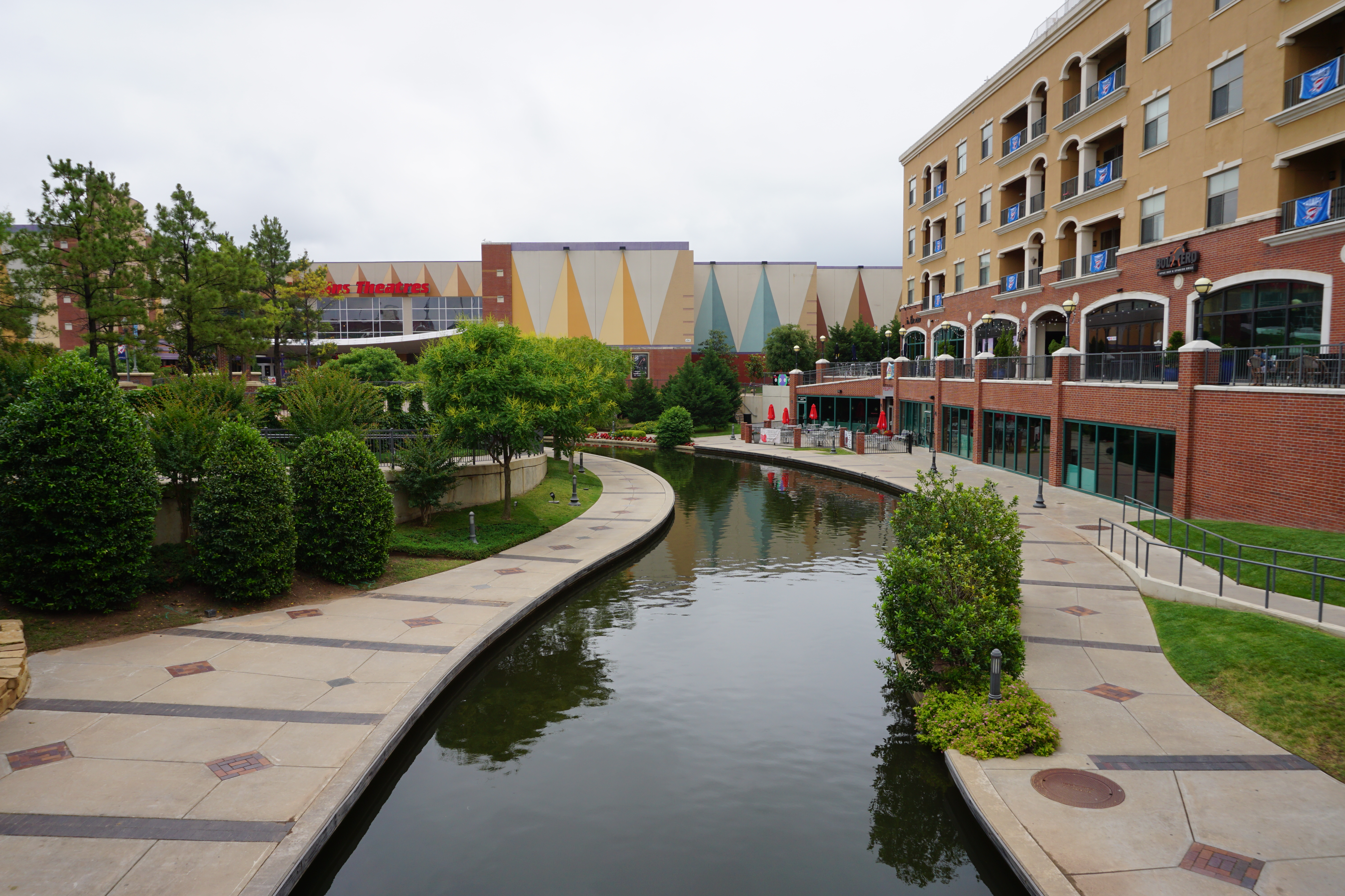 The canal in the Bricktown district of Oklahoma City, Oklahoma (United States).